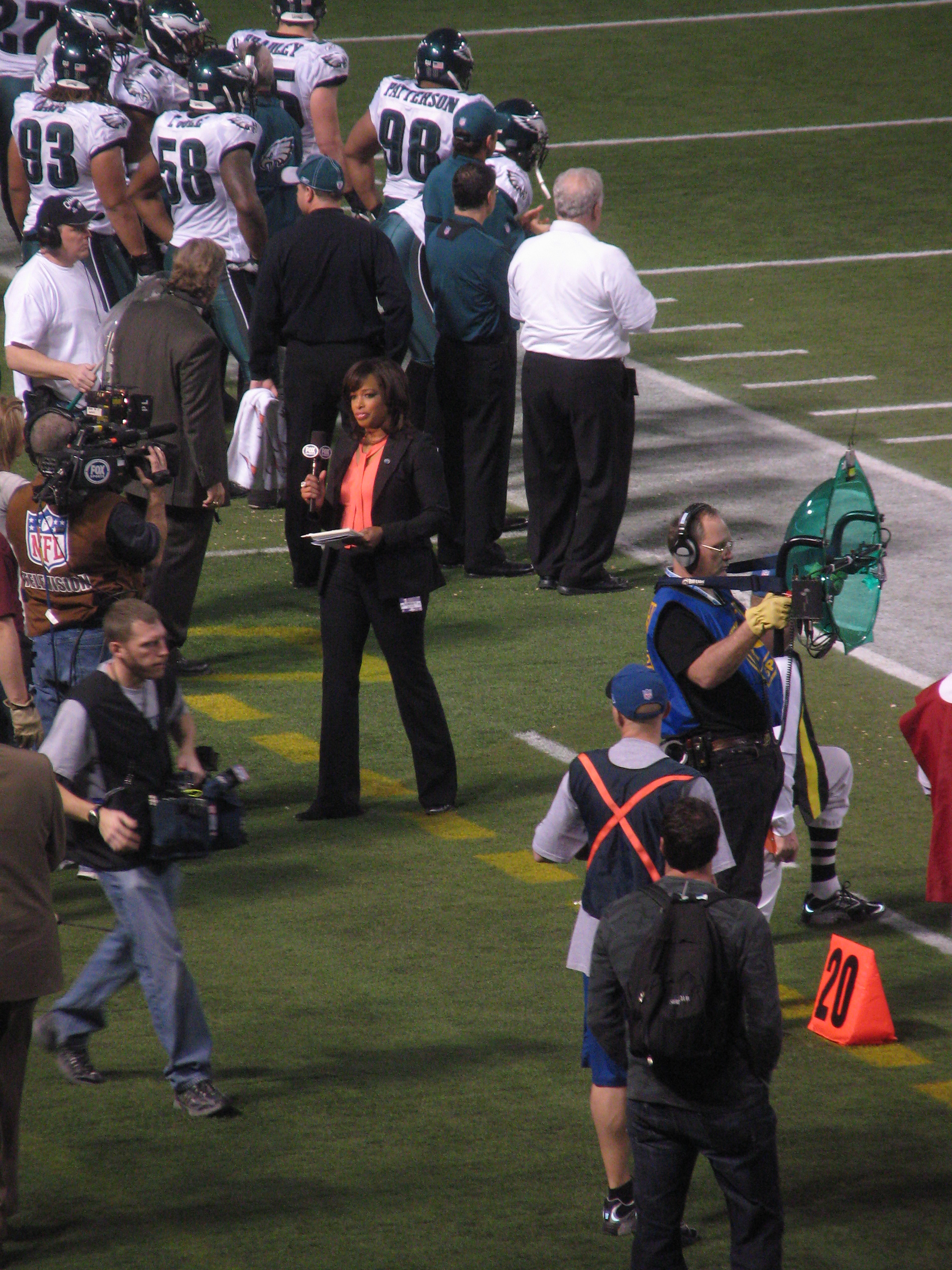 Pam Oliver at 2009 NFC Wild Card Game